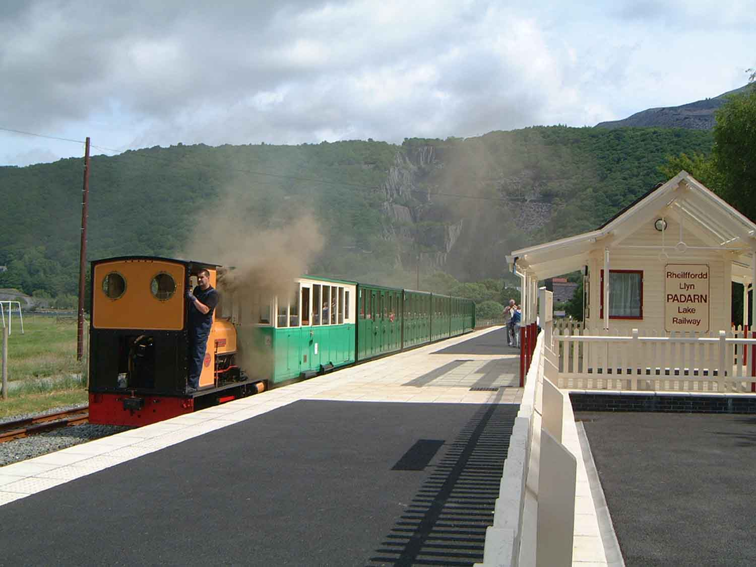 Personal photograph taken by Mick Knapton on 16th June 2004